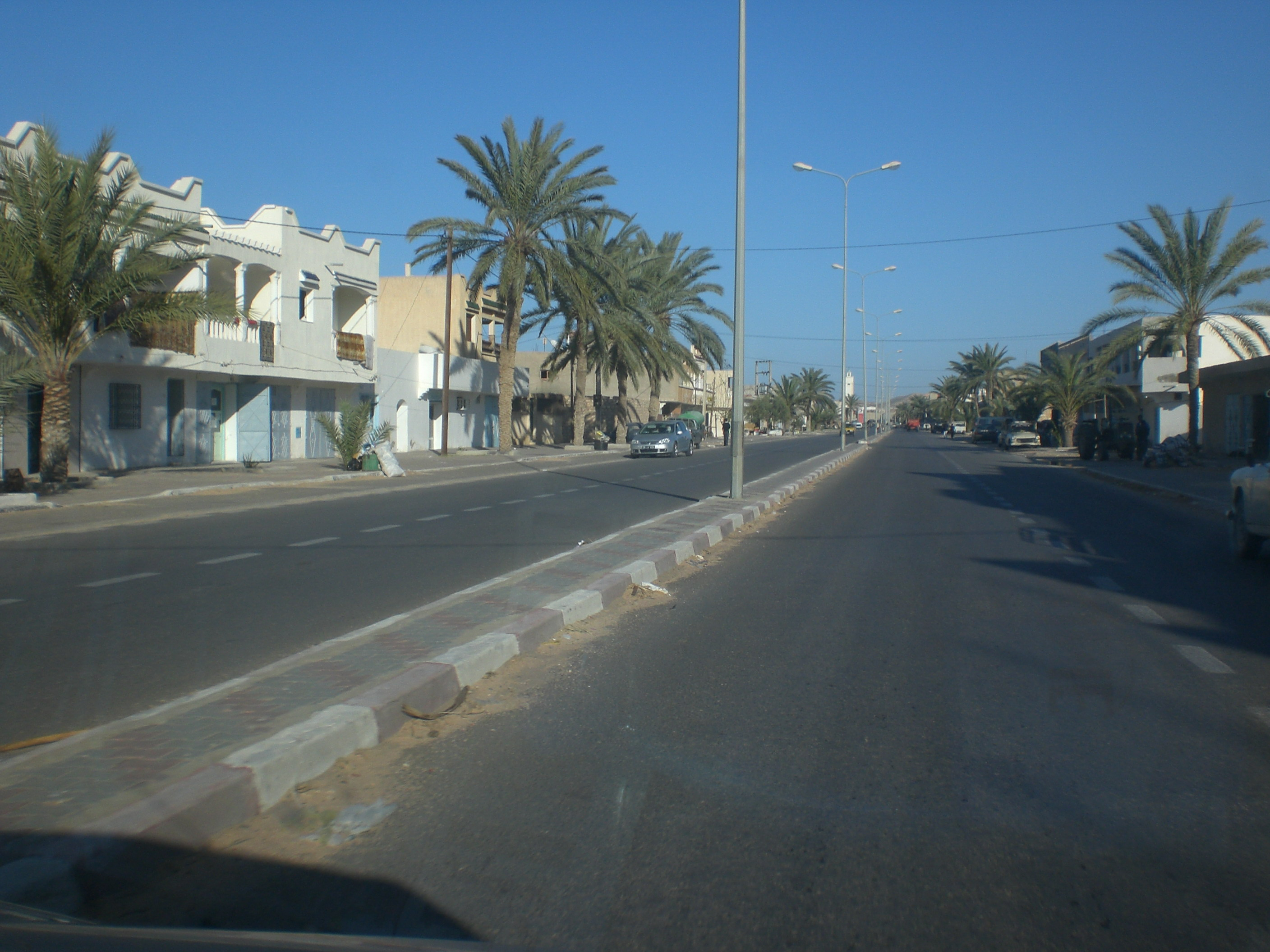 The town of El HAmma-South of Tunisia